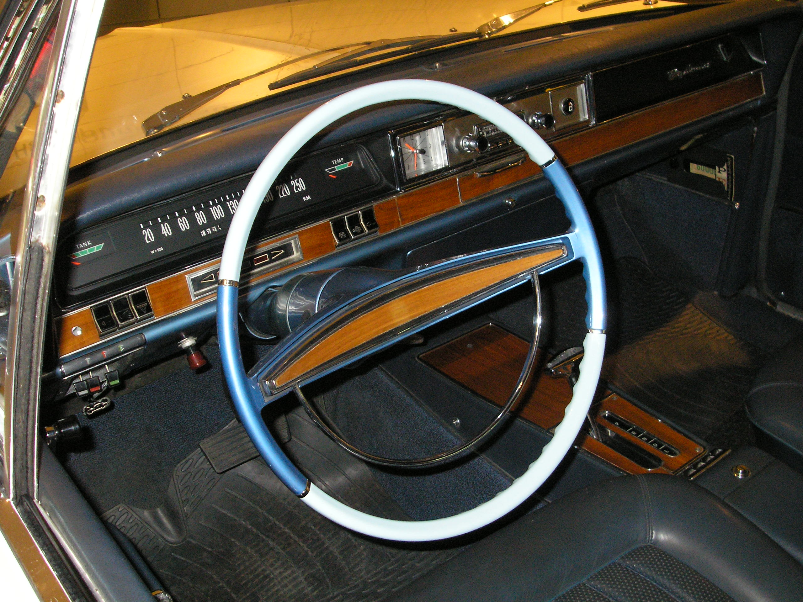 Description: Interior of the Opel Diplomat, image taken at the Opel Zentrum in Berlin at Friedrichstraße. Model of around 1964 or after. Source: self-made, I release it into the public domain. Gryffindor 17:24, 9 March 2006 (UTC)